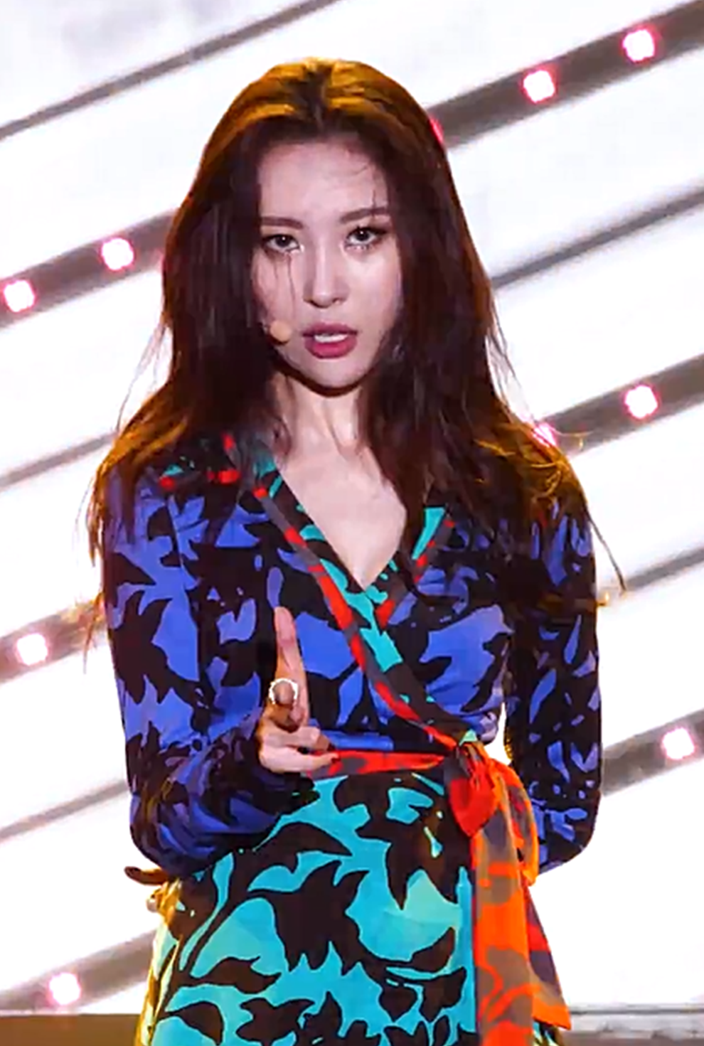 Lee Sun-mi performing "Gashina" at Incheon K-POP Concert on September 9, 2017.